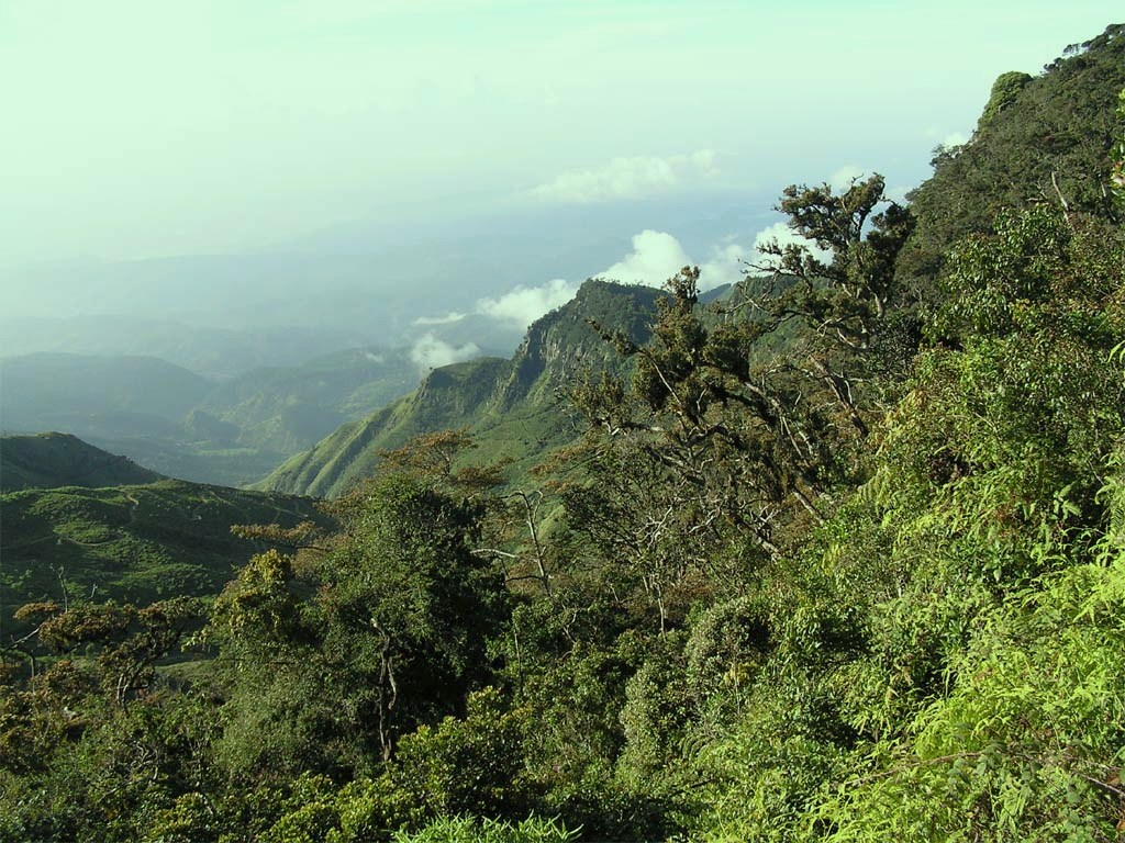 mountain forest srilanka.jayant